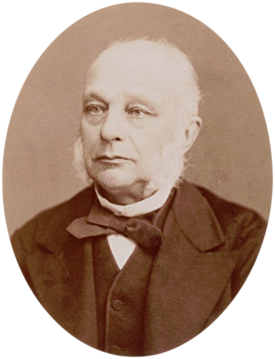 Jacob Kuyper (1821-1908)